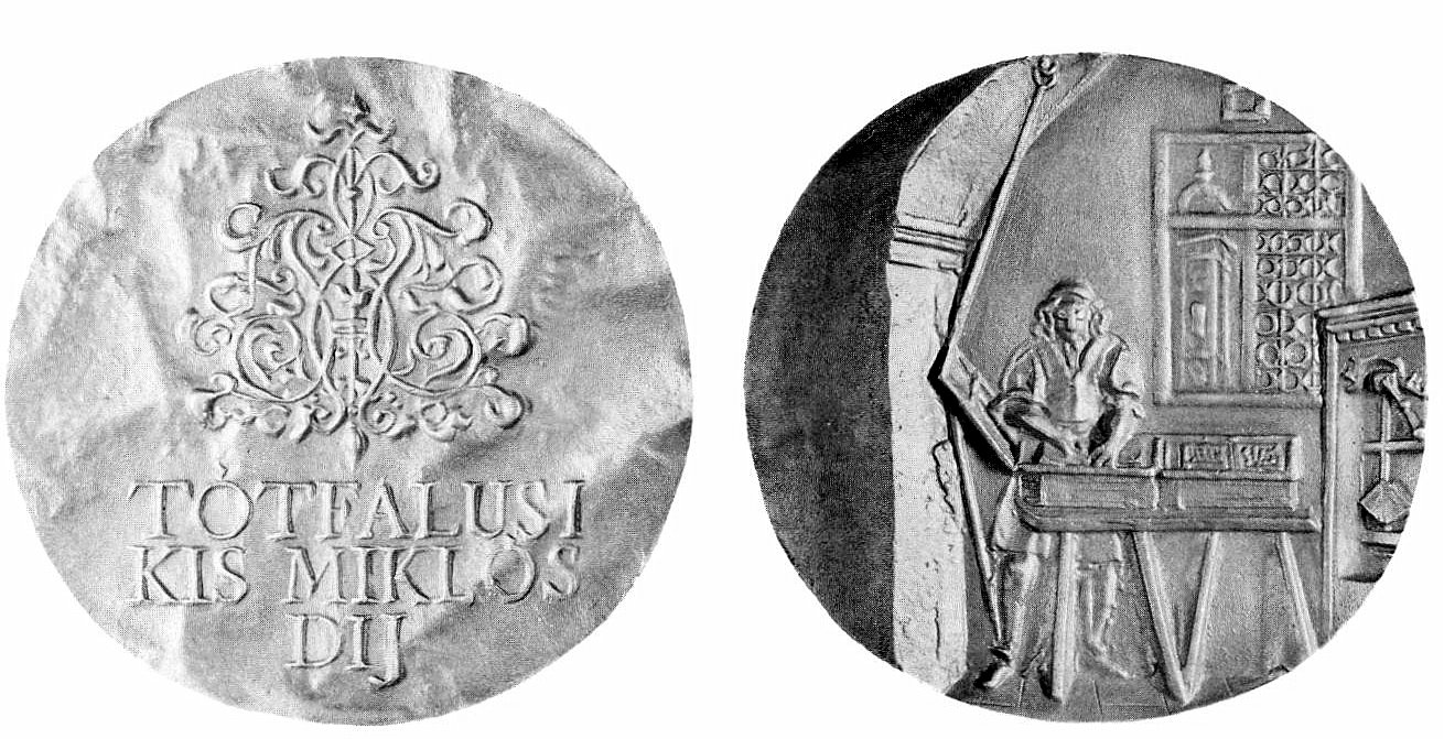 Tótfalusi Kis Miklós-prize